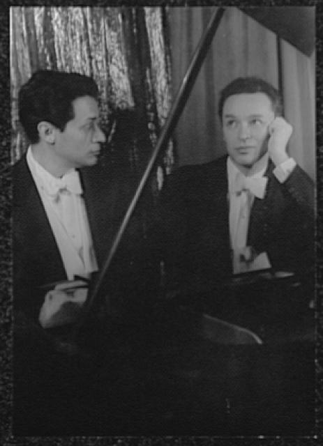 Title: Portrait of Arthur Gold and Robert Fizdale Abstract/medium: 1 photographic print : gelatin silver.